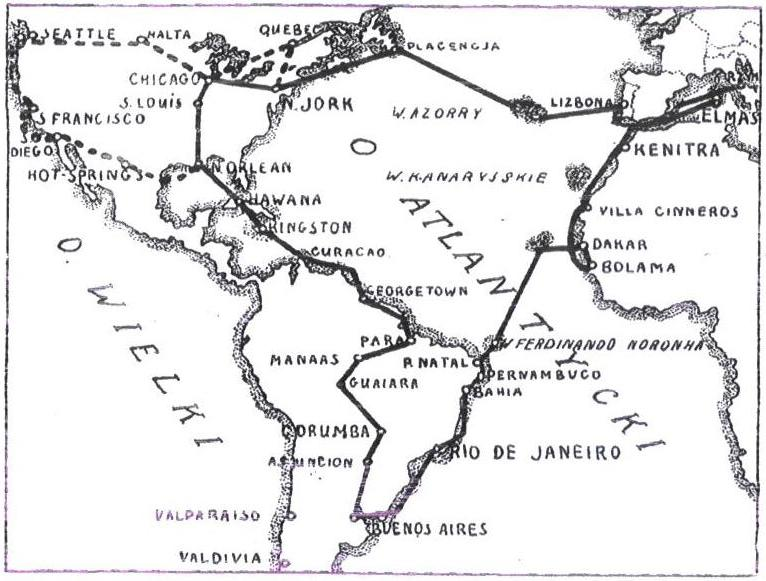 Map of flight Francesco de Pinedo.